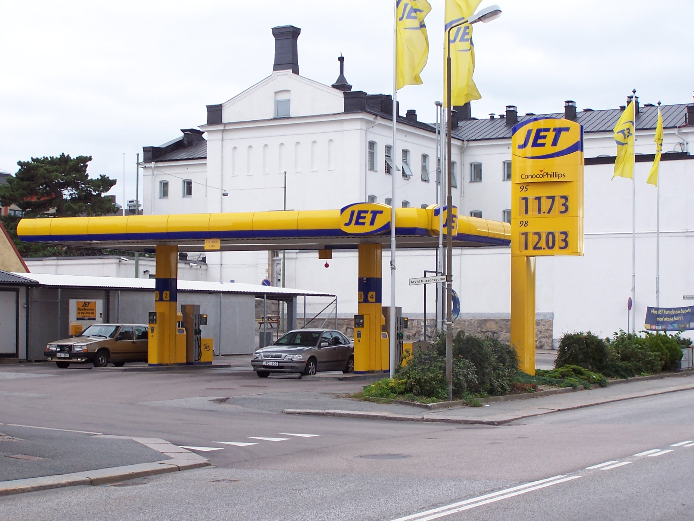 JET petrol/gas station in Karlskrona.